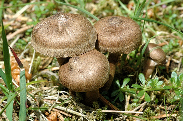 Inocybe spec. from Commanster, Belgium. The determination of the species shown in this picture has been verified.